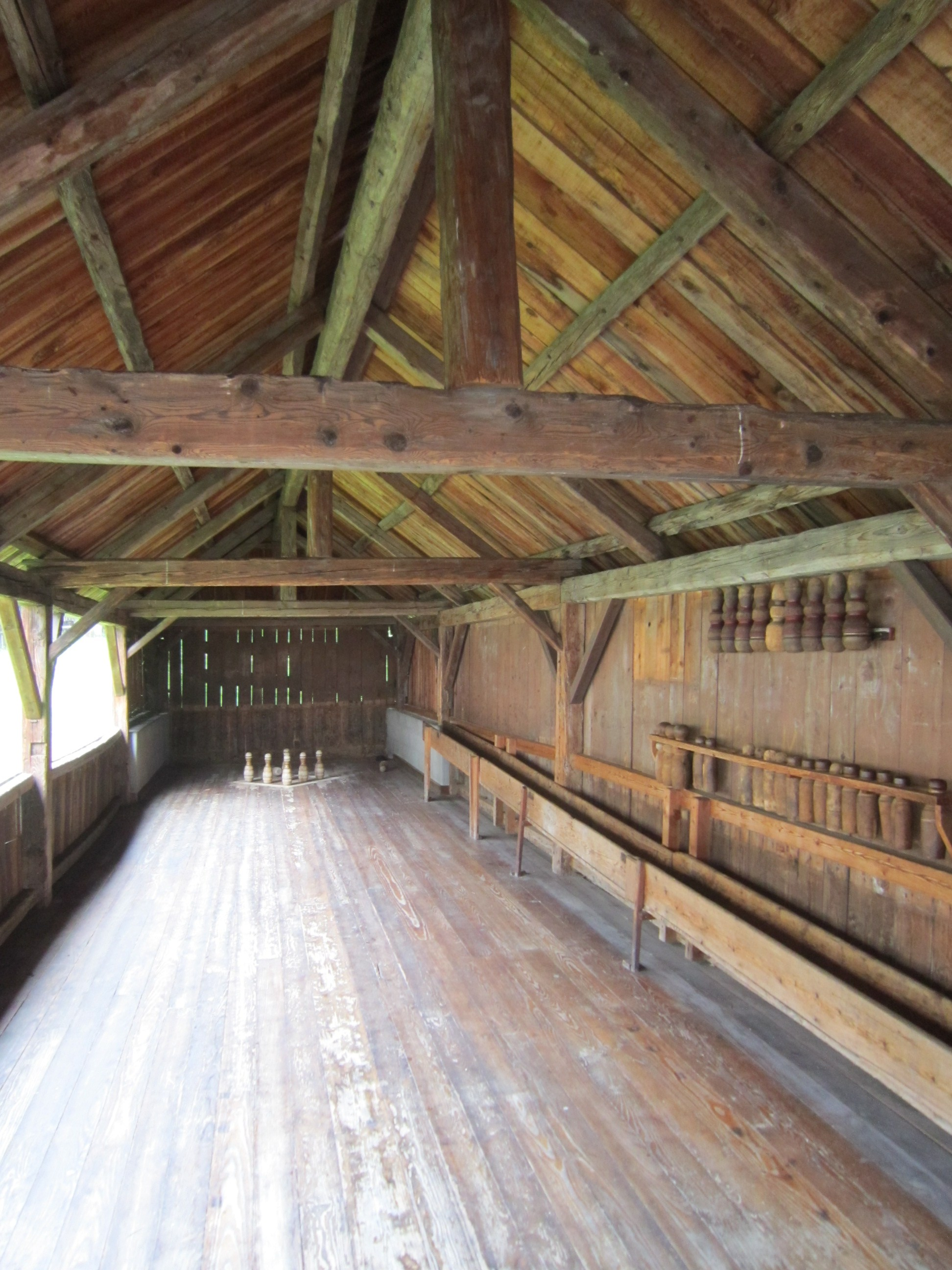 Historical skittle alley at South Tyrol State Museum of Ethnology in Dietenheim